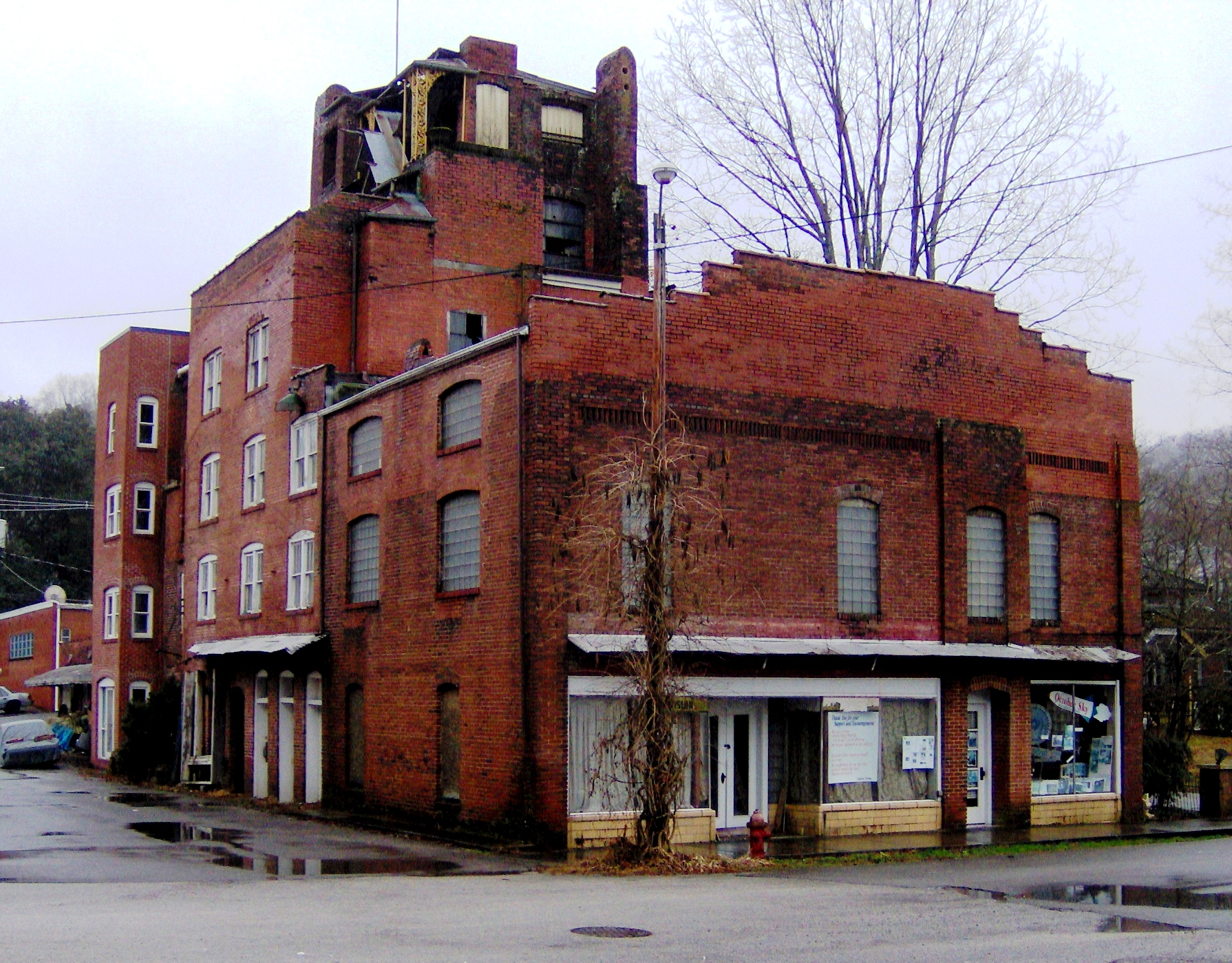 The Dr. Fred Stone, Sr. Hospital in Oliver Springs, Tennessee, USA, viewed from the northeast corner. Special thanks to property owner Charles Tichy for showing me around this site and adjacent sites.